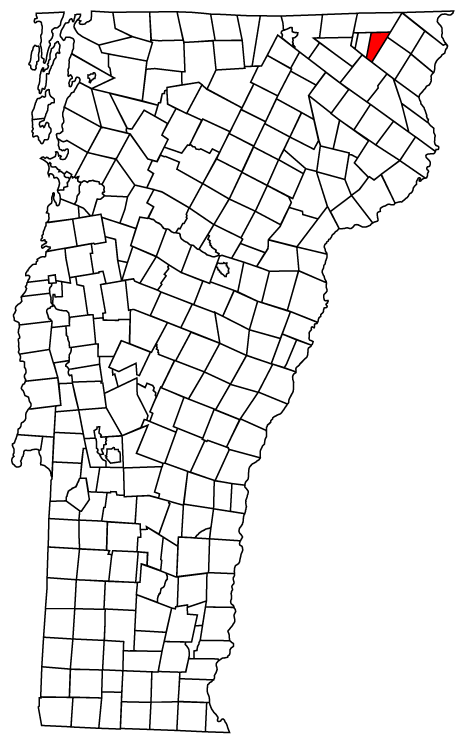 Vermont town map with town highlight